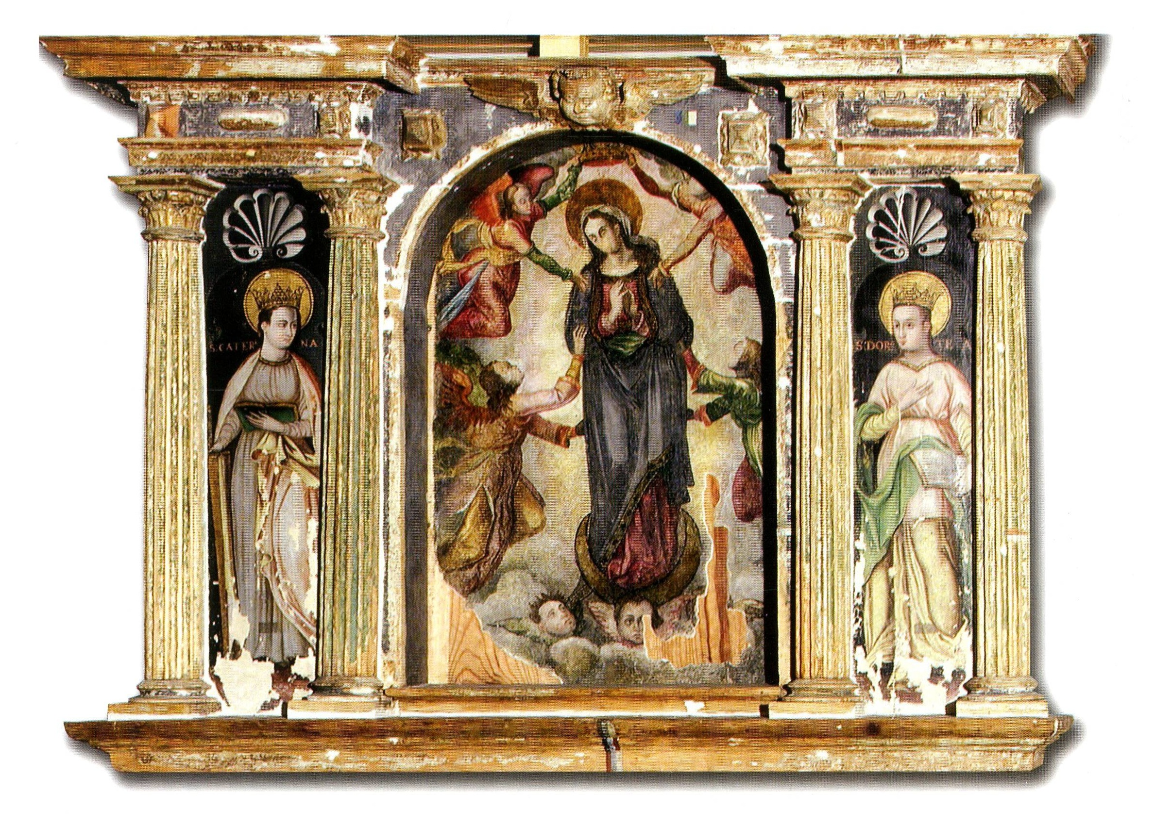 ALTAR-TRYPTYCH ST. CATHERINE. THE HOLY VIRGIN. ST. DOROTHEA. 1st half of the 17th c. Wood, tempera. Mokhavichy village Chapel, Lida district, Grodna region.